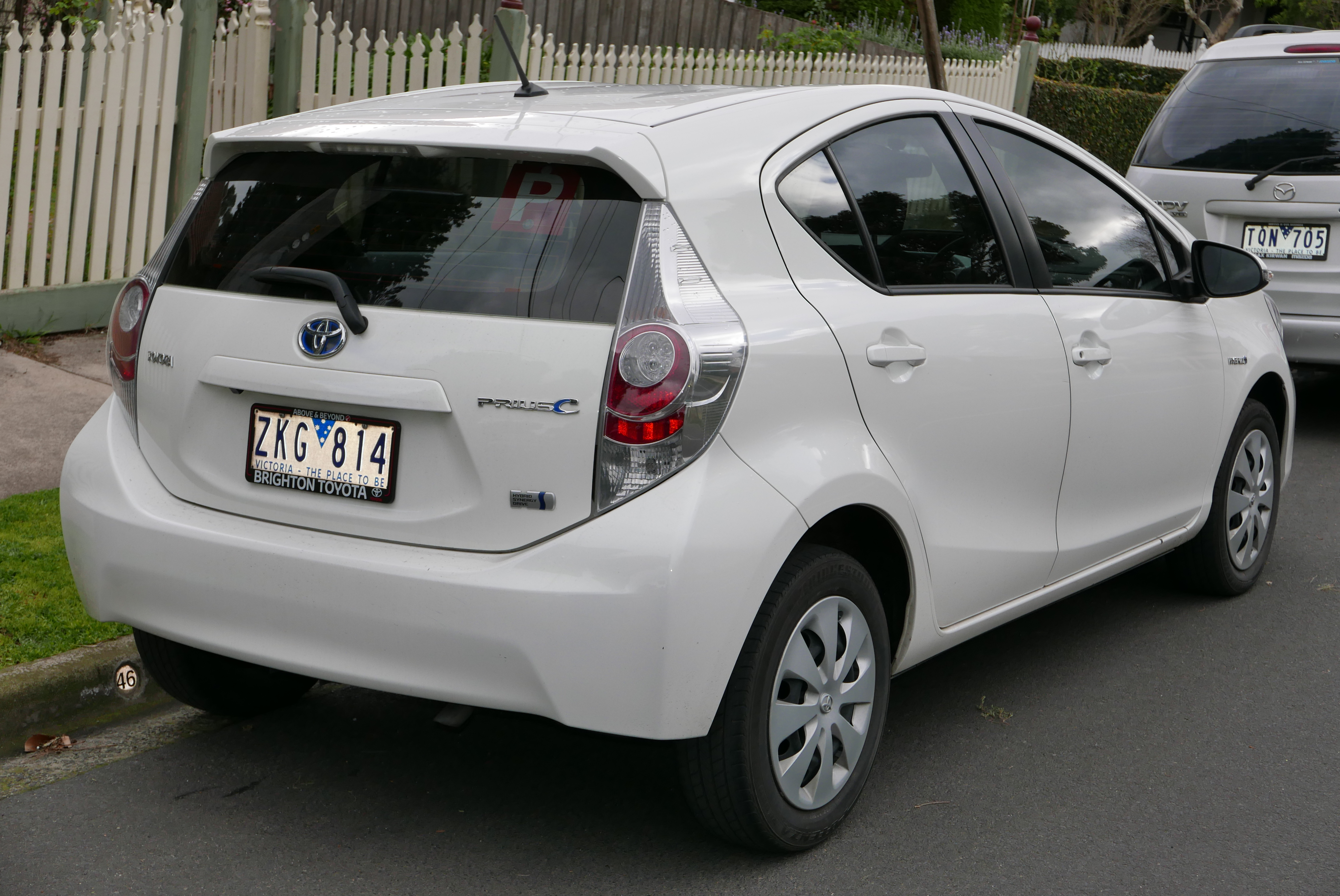 2012 Toyota Prius c (NHP10R) hatchback. Photographed in Ivanhoe, Victoria, Australia. Vehicle registration enquiry results Jurisdiction Victoria Registration ZKG814 Chassis code JTDKD3B3401024348 Engine code 1NZ6443779 Compliance date 2012-10 Year of manufacture 2012